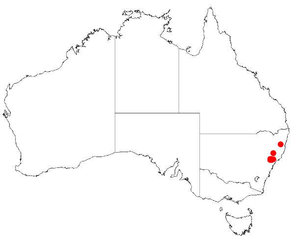 Acacia bulgaensis Occurrence data from Australasian Virtual Herbarium downloaded from on 8 December 2018